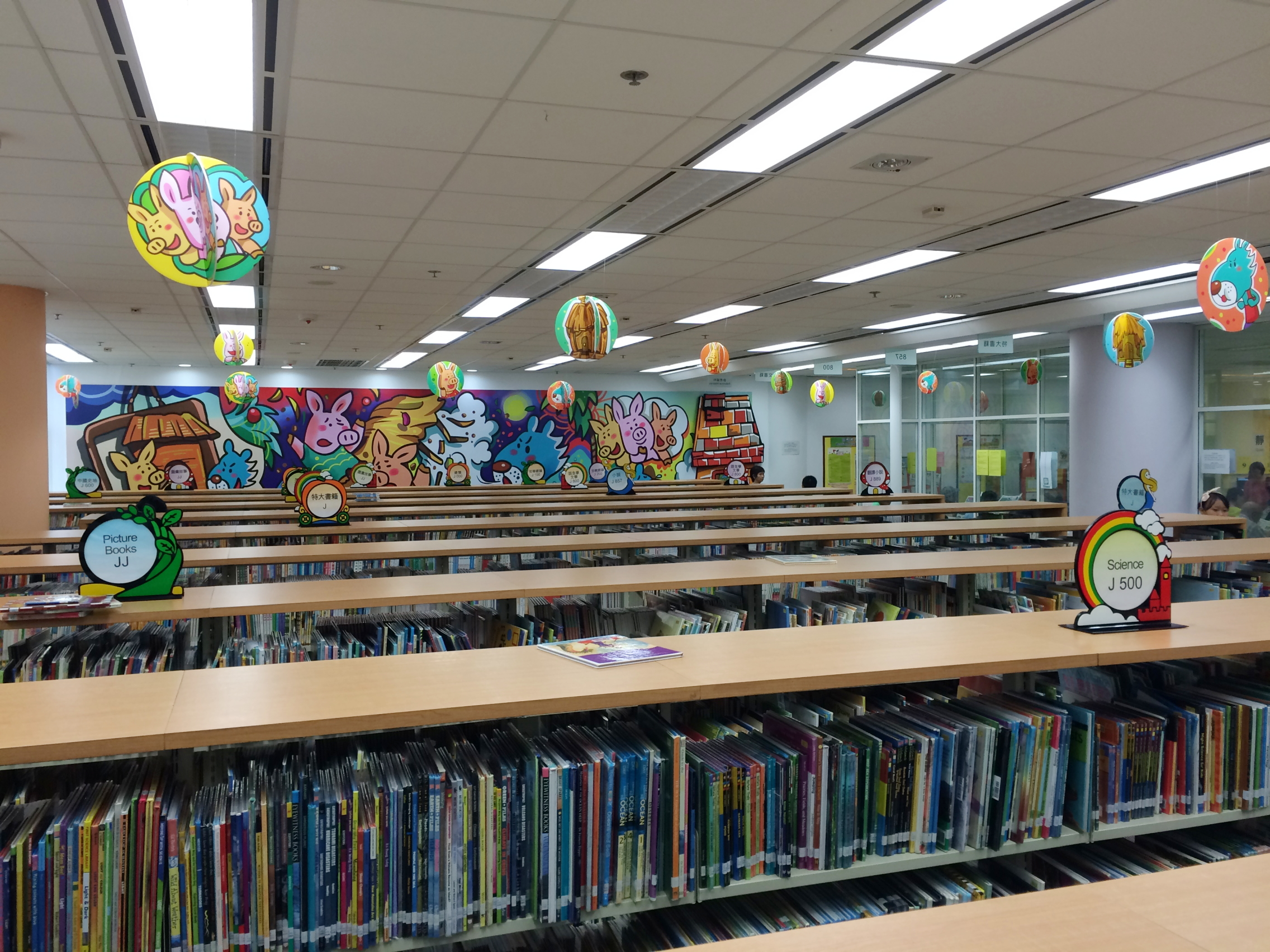 Aberdeen Public Library Children Library